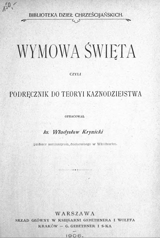 Wymowa święta Warszawa 1906